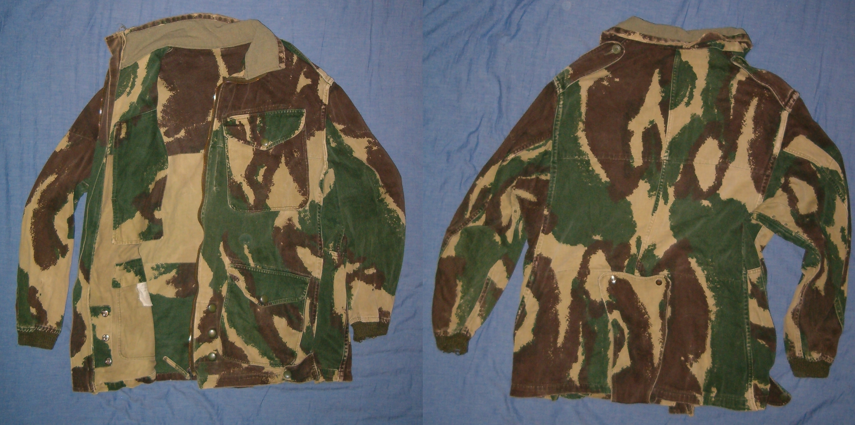 1959 Pattern Denison Parachute Smock (or 59 Patt Denison Smock), front and rear views. The 'diaper flap' is visible in the rear view, folded up, and scapped out of use. It can be lowered and fastened at the inside, front to prevent the smock riding up when parachuting. Visible are the wool cuffs, the flannel linining of the collar, and the almost complete absence of buttons (except for the two used to fasten the epaulettes). Snaps are used to secure pockets, tighten the hem, and fasten the 'diaper flap'. Source Uploaded by author Aodhdubh 18:26, 15 November 2006 (UTC)